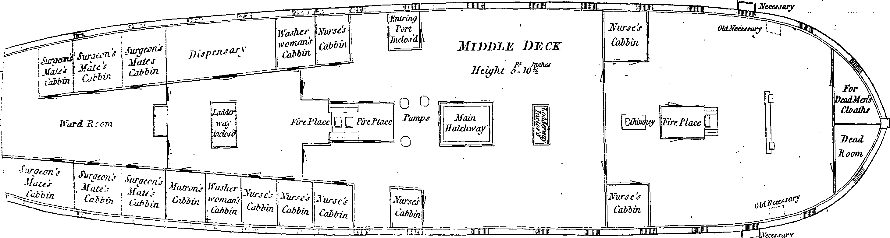 Fleuron from book: An account of the experiment made at the desire of the Lords Commissioners of the Admiralty, on board the Union hospital ship, to determine the effect of the nitrous acid in destroying contagion, and the safety with which it may be employed. In a letter addressed to the Right Hon. Earl Spencer, &c. &c. &c. By James Carmichael Smyth, M. D. F.R.S., Fellow of the Royal College of Physicians, and Physician Extraordinary to His Majesty, published with the approbation of the lords commissioners of the Admiralty.